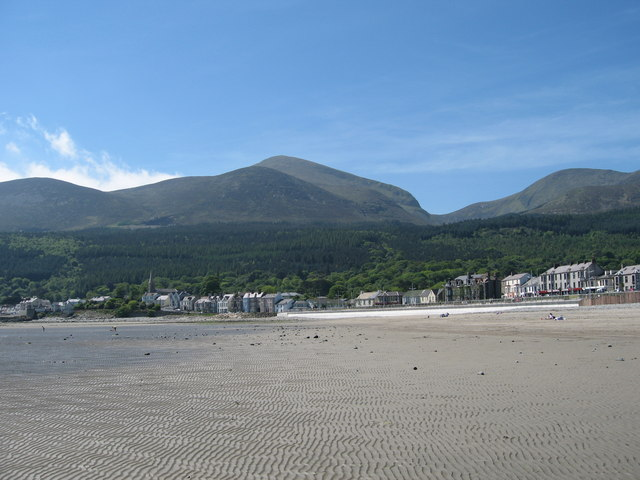 The Mourne Mountains From Newcastle Beach This photo was taken from the beach at Newcastle whenever the tide was out.